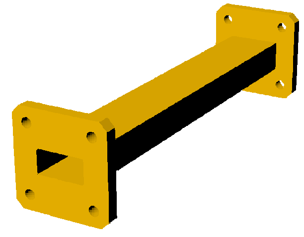 Waveguide. Drawing of a straight 6-inch length of WG17 with UBR120 flanges (a photo would be better)